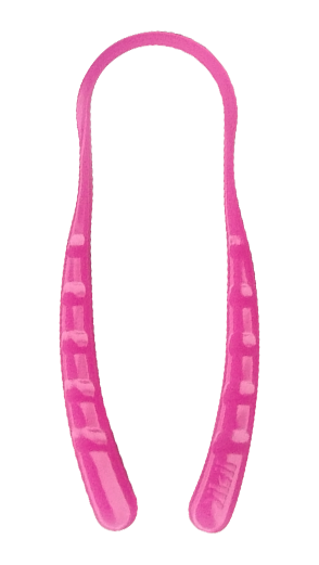 Tongue Scraper Model of Dilsil